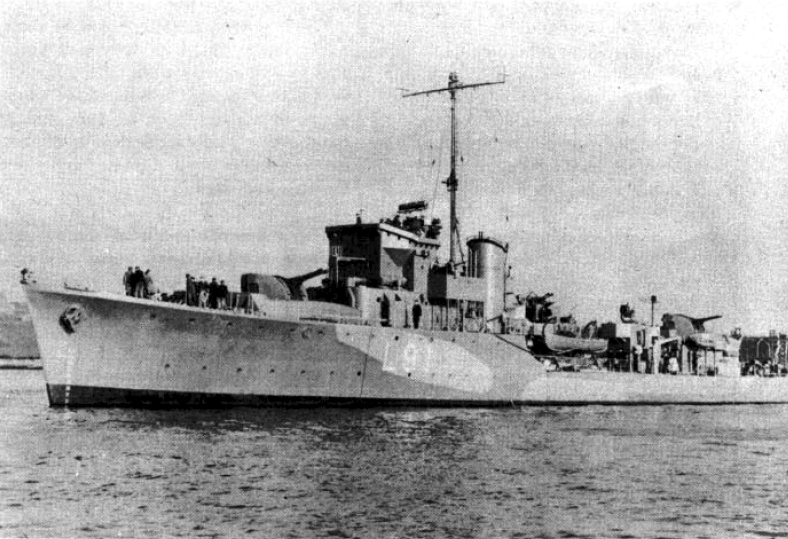 The Greek destroyer Miaoulis (L91), photographed probably during the Second World War. Taken at South Shields on the Tyne so probably as new in 1942. IWM picture FL15529